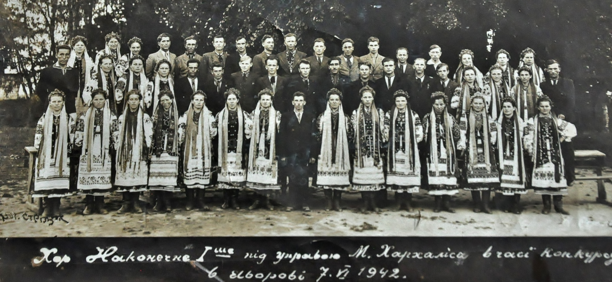 Photography of the choir of the Nakonechne Pershe village during the song contest in Yavoriv on June 7th, 1942. Picture from the Nakonechne Pershe School museum. Photographer: Strociuk?